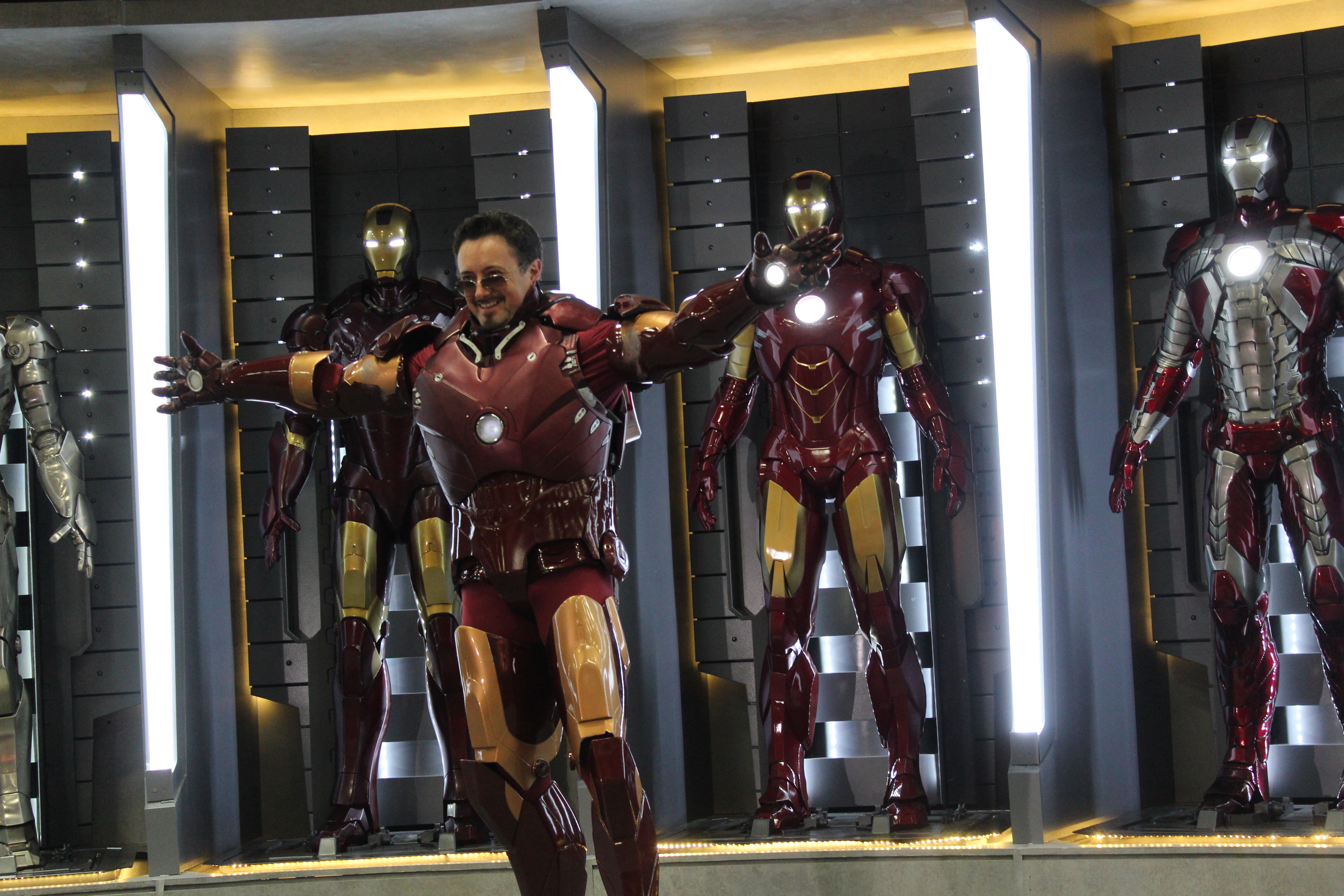 Iron Man Cosplay at San Diego Comic-Con (SDCC 2012).